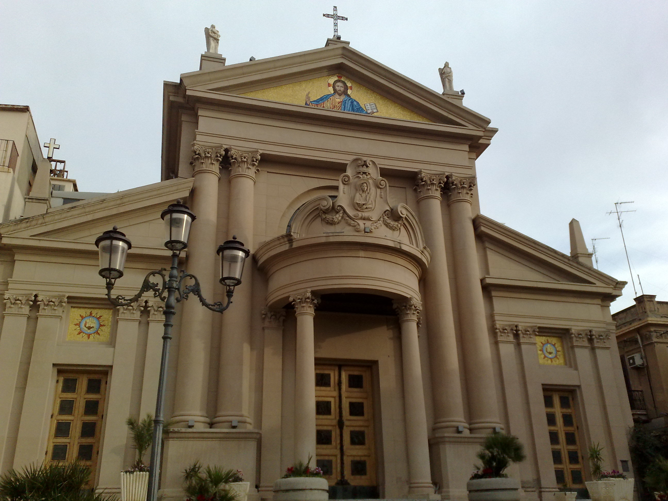 Church of St. Lucia